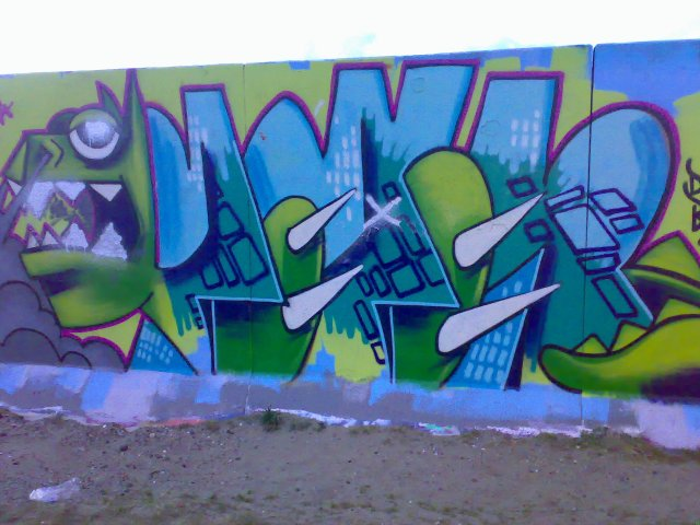 Graffiti on the Wall of Fame, a wall dedicated to legal graffiti in Katwijk.